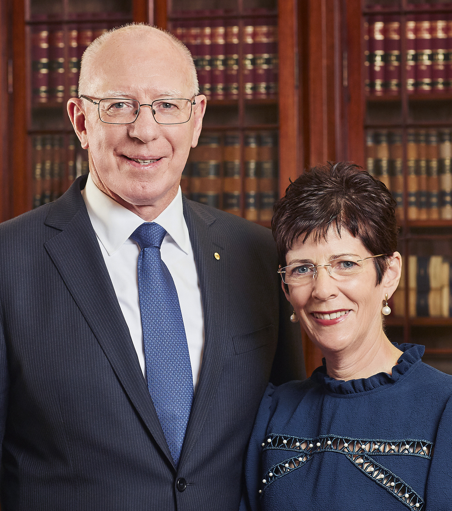 27th Governor-General of Australia David Hurley, with his wife Linda.